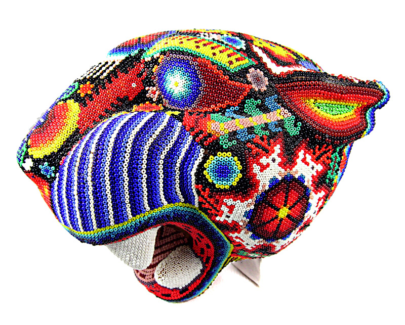 for info